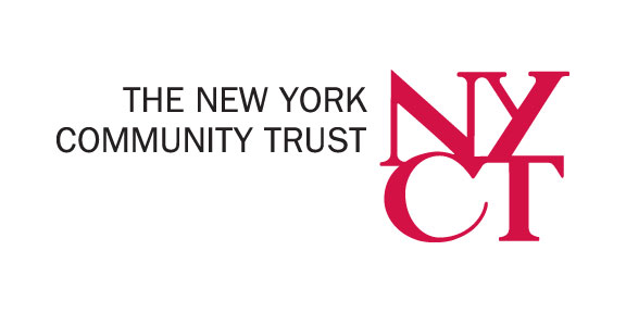 NYCT Logo